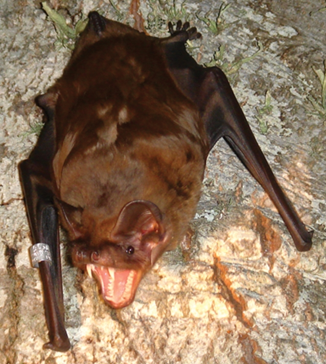 From: Figure 1 of Popa-Lisseanu, A. G., Delgado-Huertas, A., Forero, M. G., Rodriguez, A., Arlettaz, R. & Ibanez, C. 2007. Bats' conquest of a formidable foraging niche: the myriads of nocturnally migrating songbirds. PLoS ONE 2(2): e205. URL: [1]